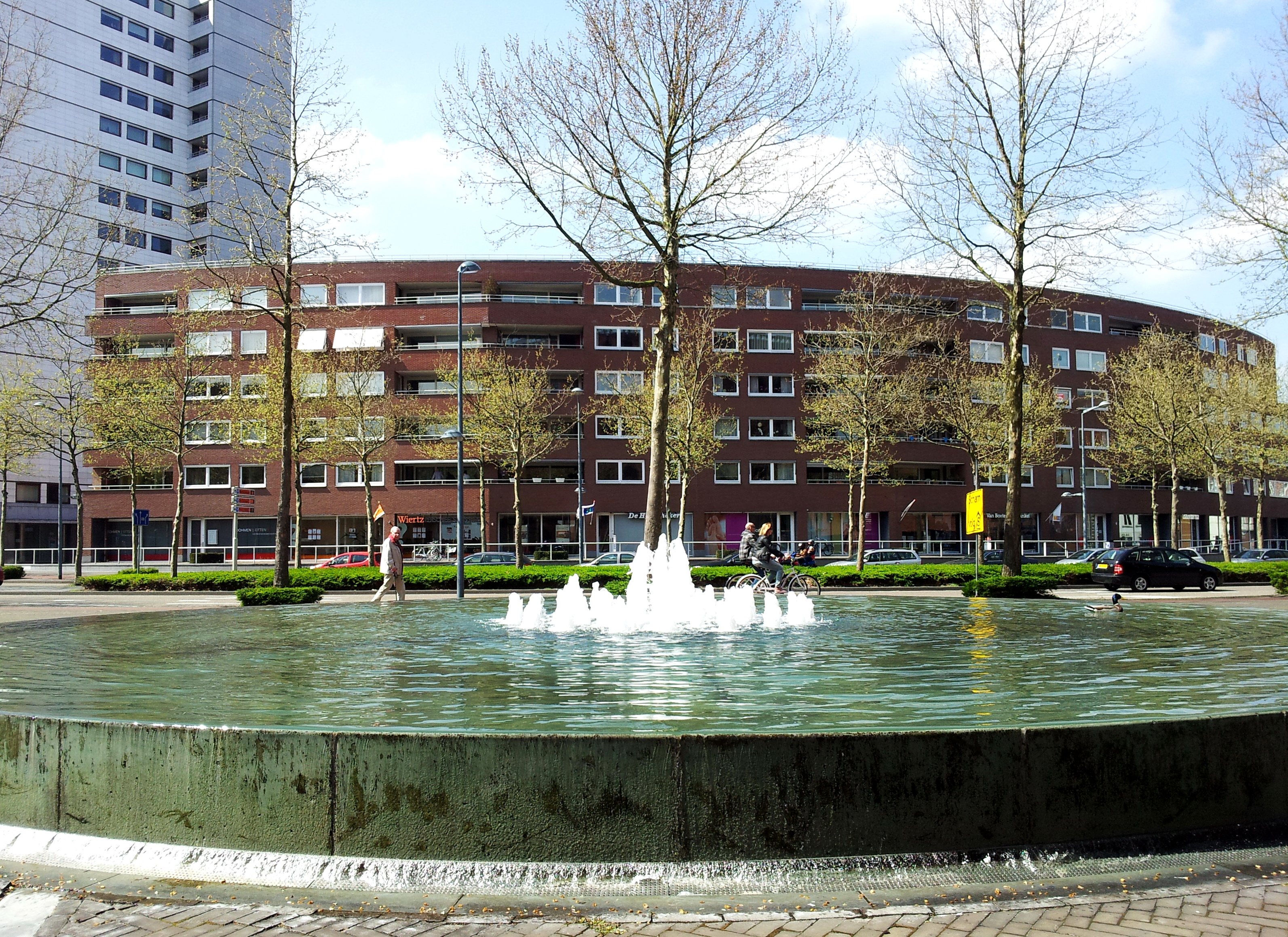 Maastricht, the Netherlands. View of some of the buildings on Avenue Céramique, the main avenue in the newly developped Céramique district, designed by Álvaro Siza .